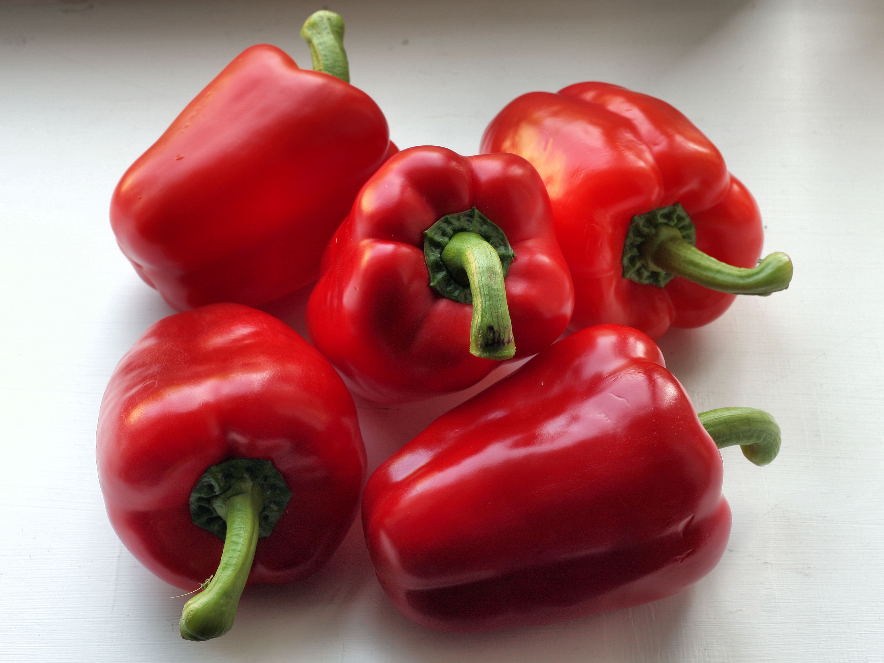 Red bell peppers.